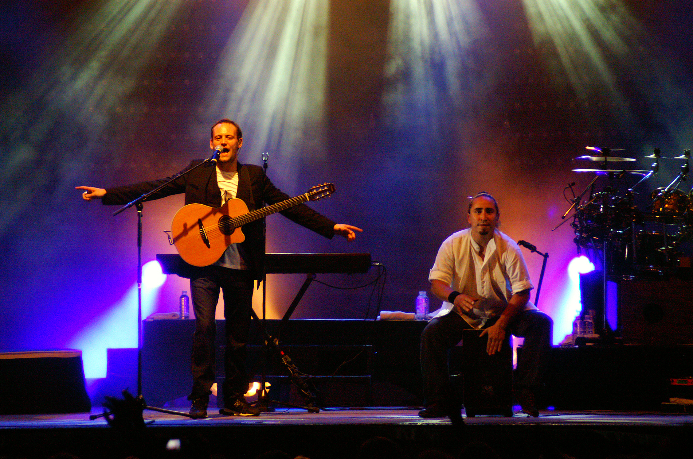 Tryo live at Aux Zarbs festival (Auxerre, France).